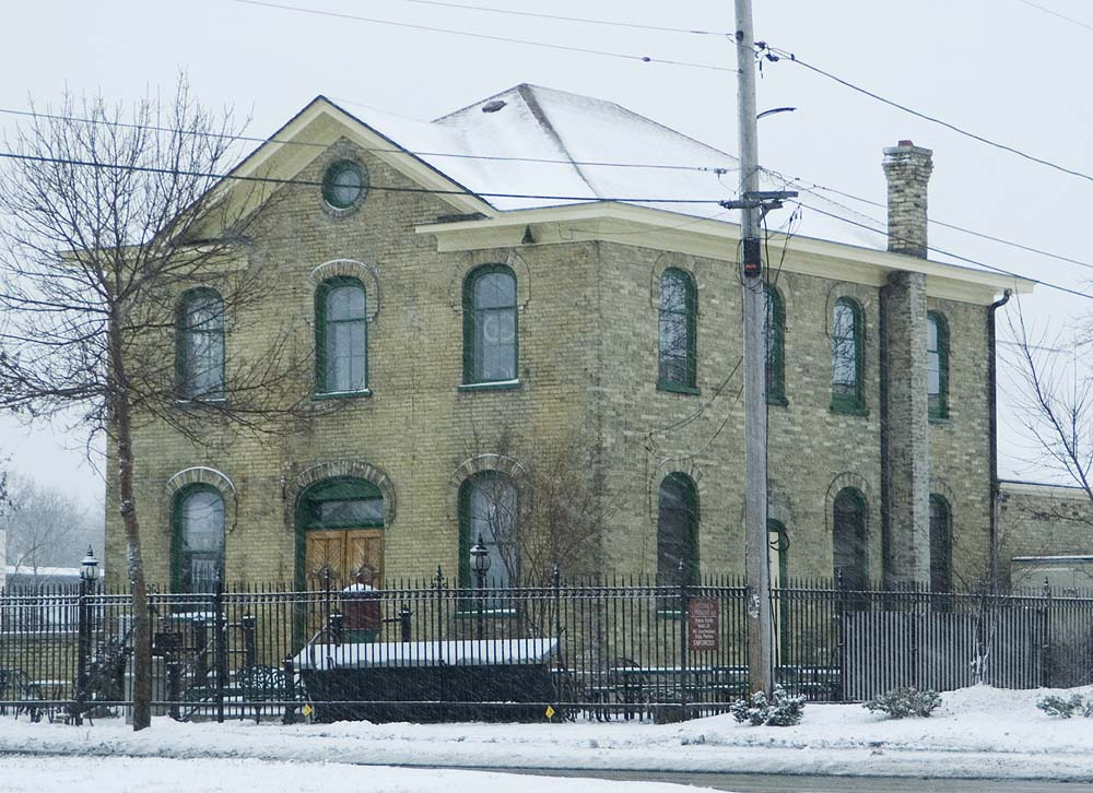 New Coeln House, Registered Historic Place, in Oak Creek, Wisconsin.